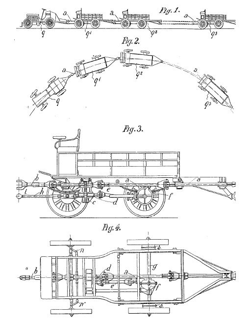 Patent drawing of Renard road train - 1903